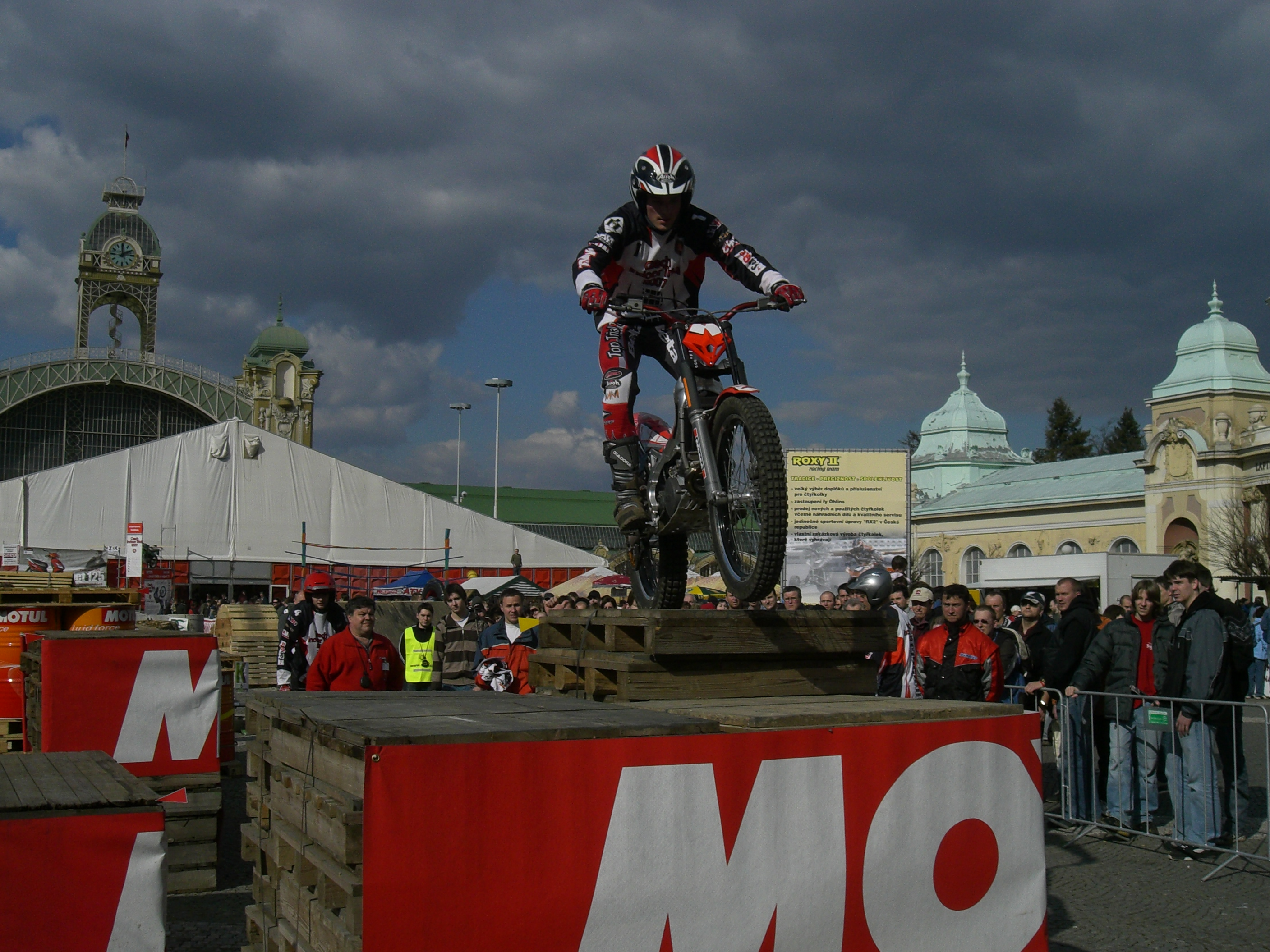 Motorcycle Trial rider during qualification on Pražské výstaviště in Holešovice. Praha 9. March 2007